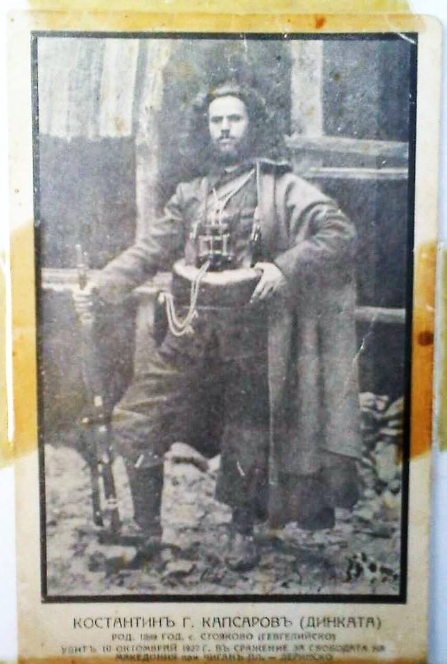 Kostantin Kapsarov IMARO